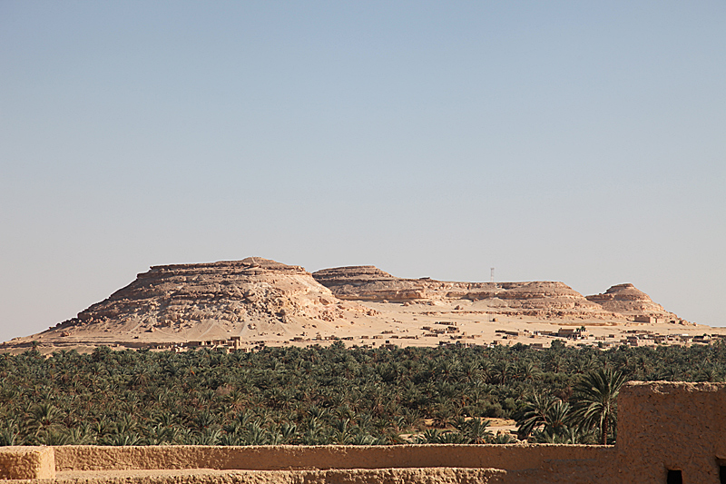 Gebel el-Dakrur as seen from Aghurmi, Siwa depressen, Egypt